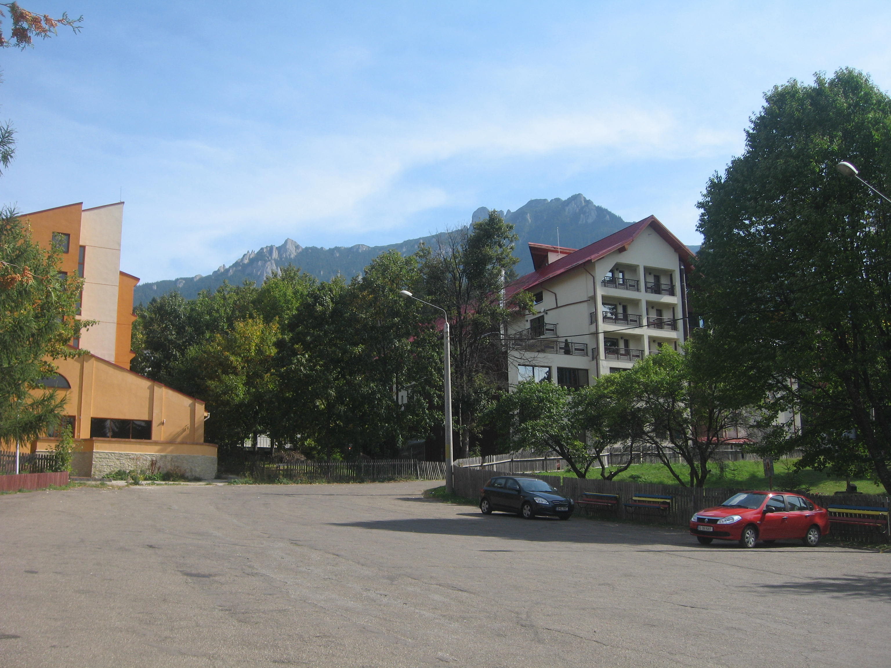 Durau